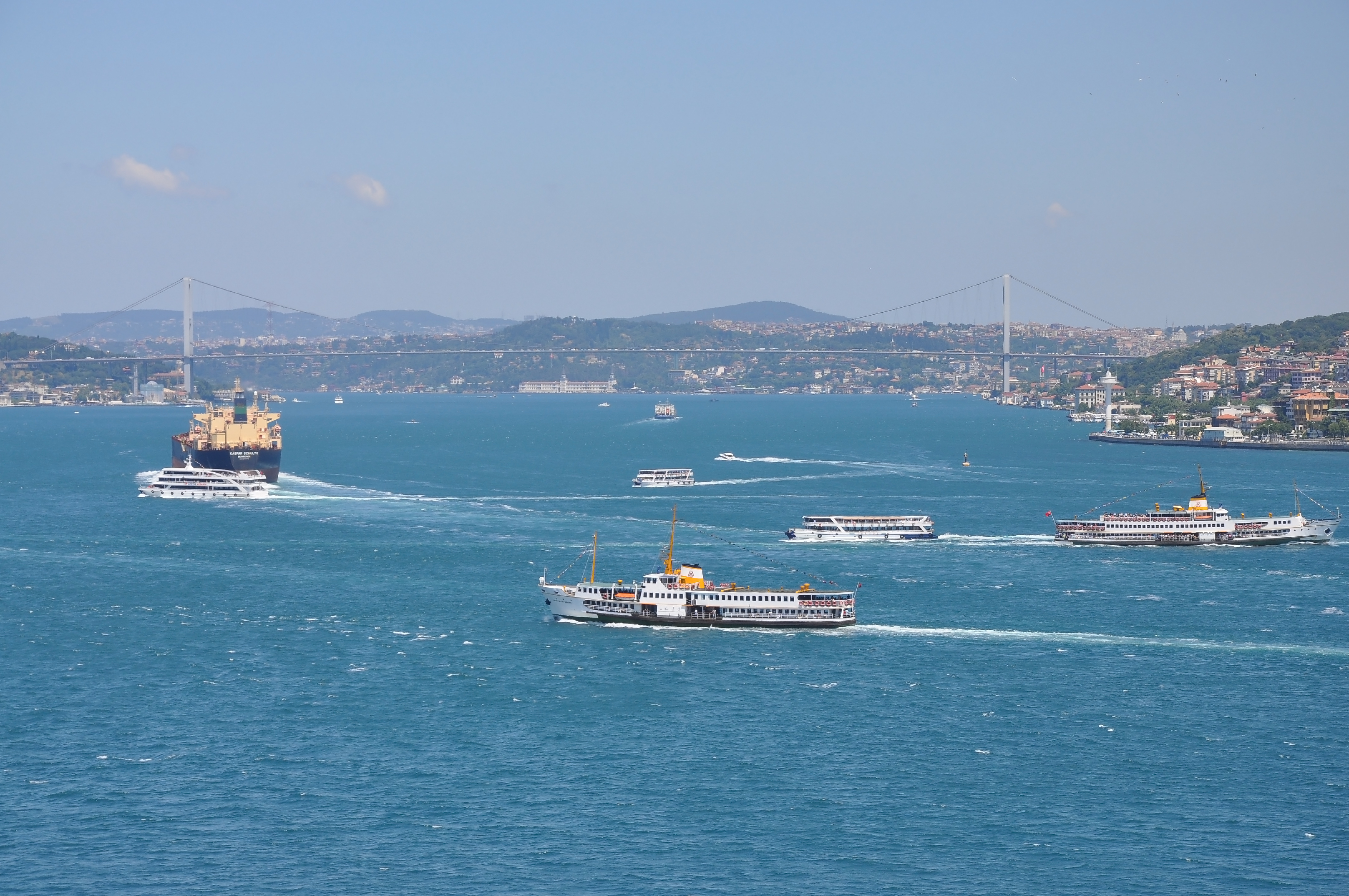 View of the ships on the Bosphorus from the Fourth Courtyard of the Topkapı Palace in Instanbul, Turkey.